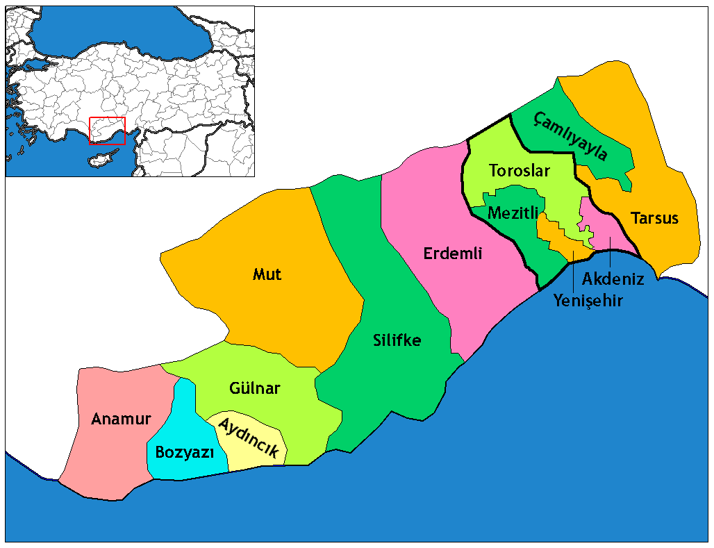 Map of the districts of Mersin province in Turkey. Created by Rarelibra 16:37, 4 December 2006 (UTC) for public domain use, using MapInfo Professional v8.5 and various mapping resources. Edited by One Homo Sapiens Corrected text where İ,Ş,ı,ğ,or ş occurs in name. Source: [statoids-com]. Increased font size and enhanced color differences among adjacent districts.